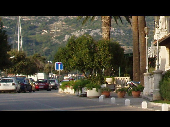 ex anamoprhic 4:3